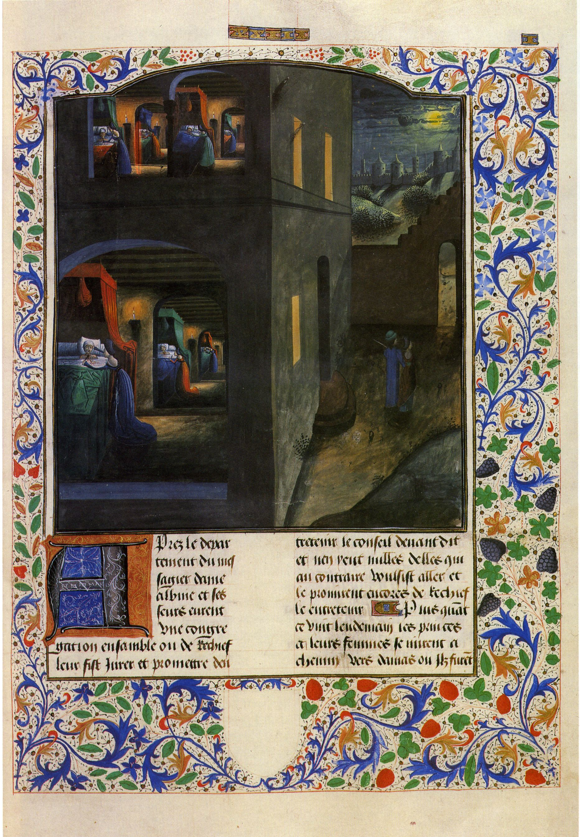 Jean de Wavrin, Chronique d’Angleterre. The illumination shows a scene from the legend of king Diodicias of Syria, whose daughter Albina is supposed to have been the first queen of England: Daughters of the king kill their bridegrooms in the wedding night. Vienna, Österreichische Nationalbibliothek, Cod. 2534, fol. 23r.